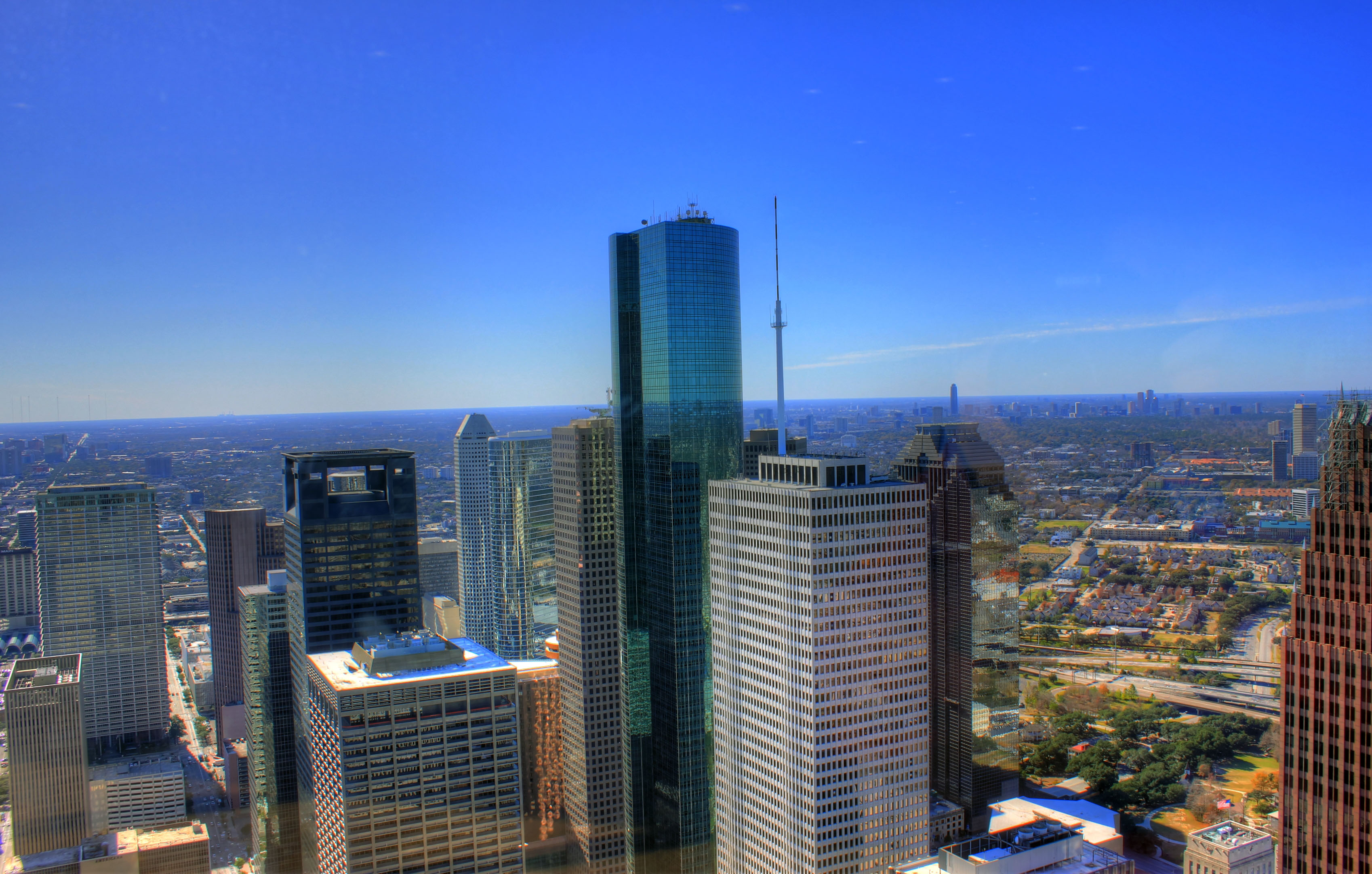 Houston is the largest city in Texas with the six million people in its metro area. Its wide array of parks and attractions make it an attractive city for touri Skyscrapers viewed from another angle